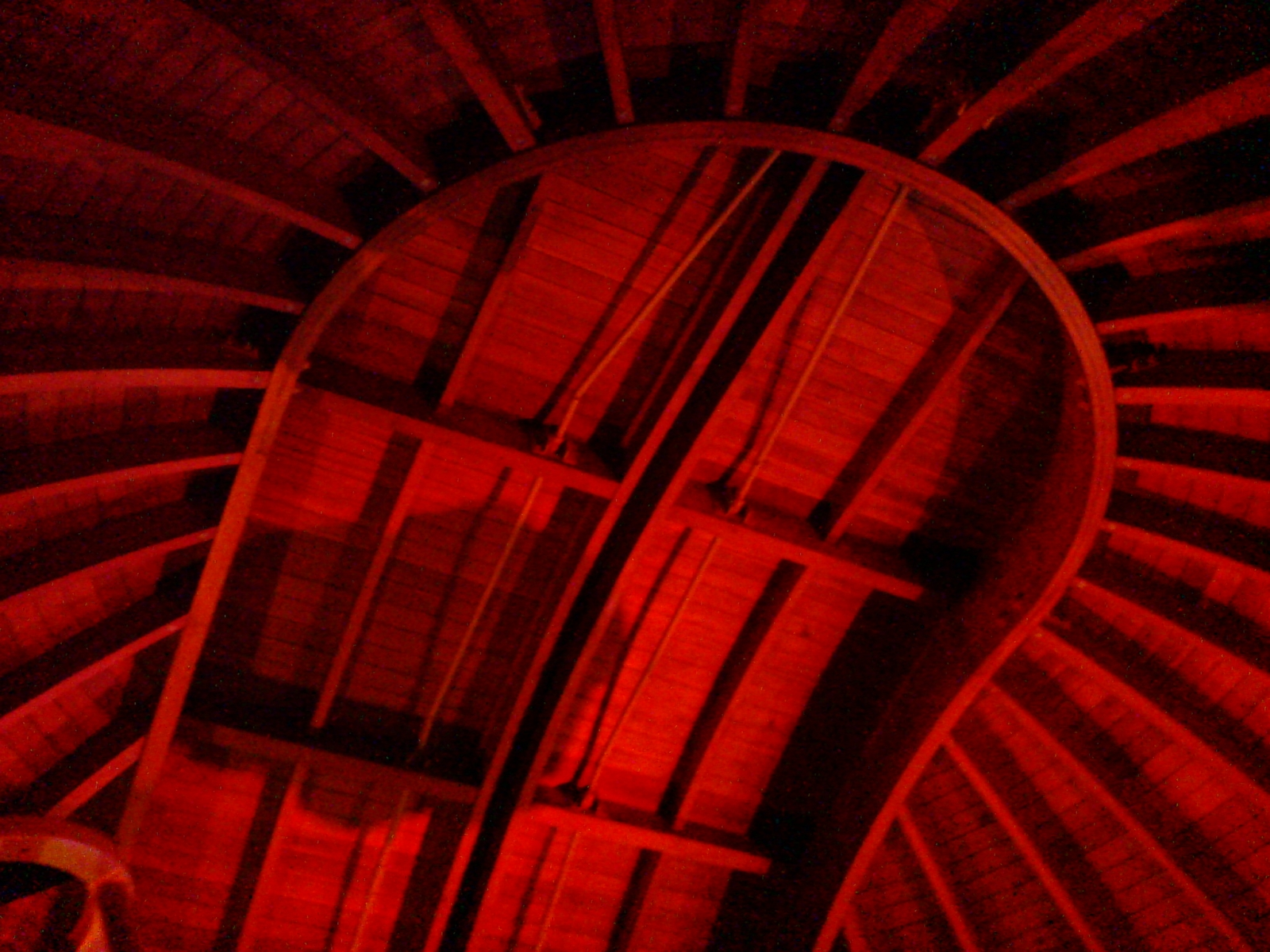 A view of the inside of dome of the large telescope (now mainly used for amateur uses and in suppport of smaller researh projects) at the Stardome Observatory in Auckland City, New Zealand.